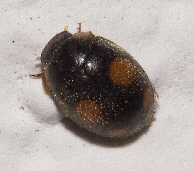 Please report references to kulacgmx.at.